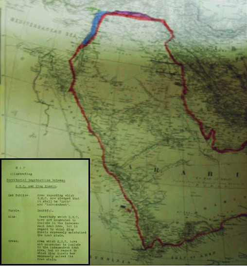 MPK 1/410 extracted from FO 371/4368; (7) Larger printed map, showing additionally the whole Arabian peninsula. Reference table. Scale: 1:6,969,600. Ms additions, coloured, mark several areas under discussion. Title affixed: 'Map illustrating Territorial Negotiations between H.M.G. amd King Hussein'; reference table to additions affixed.